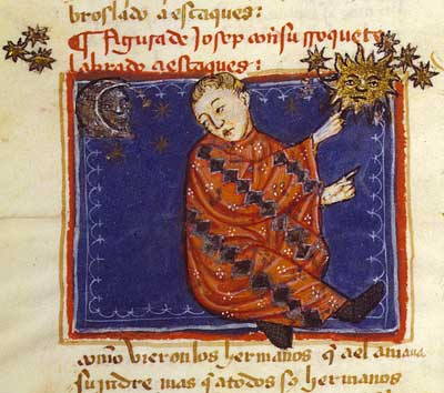 The second dream of Joseph, who wears the coat his father gave him. The caption, written before the miniature was made, reads: 'Figura de Josep con su rroquete labrado a escaques' ('Picture of Joseph with his checked cloak'). In this, the first miniature of the Joseph cycle, Joseph is seated in the middle of a square field, one leg folded under him. He is wearing a long orange robe with white flecks and silver checks. The silvery moon to the left and the golden sun to the right have faces, and are surrounded by golden stars both inside and outside the frame of the miniature. Joseph's head is turned towards the moon and his body towards the sun. He holds out one hand to the sun and points to the right with the other, towards the first dream, illustrated in the second text column.